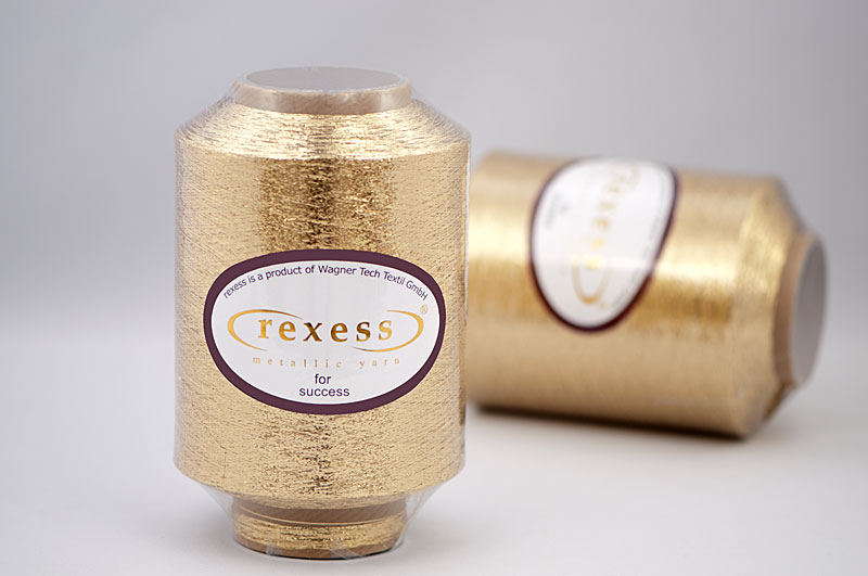 rexess metallic yarn